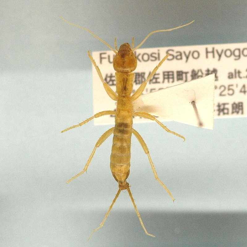 Galloisiana nipponensis (Caudell & King, 1924) A grylloblatid from Japan.